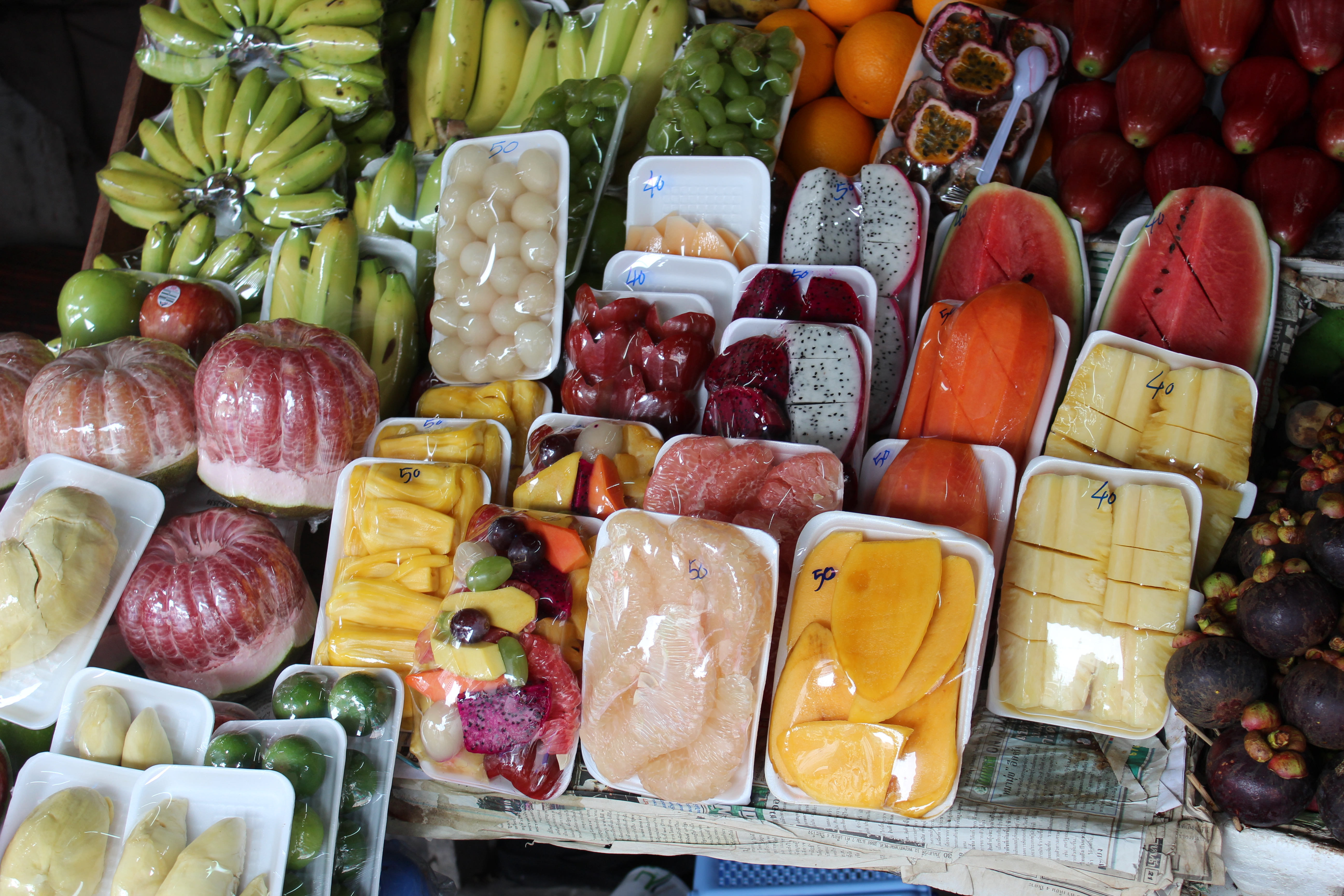 Fruit shop selling thai fruit